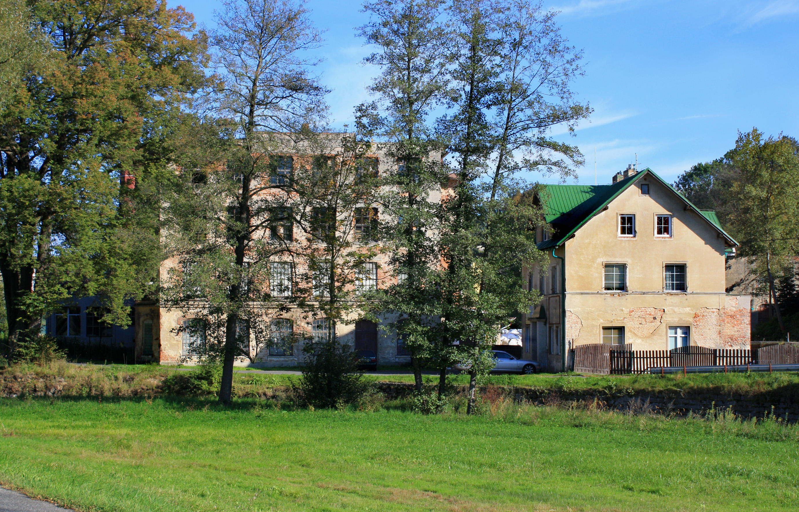 Former factory in the west part of Nová Ves, Czech Republic